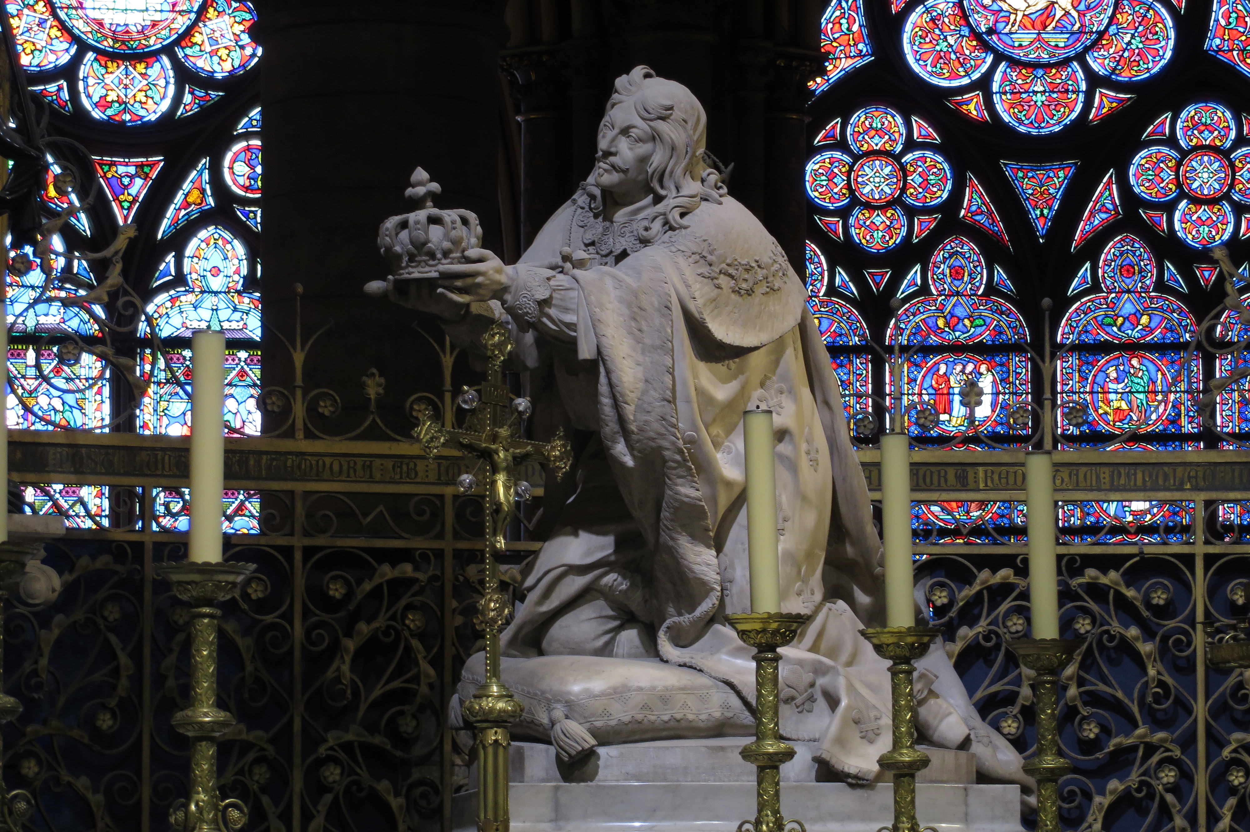 Louis XIII from Guillaume Coustou, high altar of Notre Dame de Paris